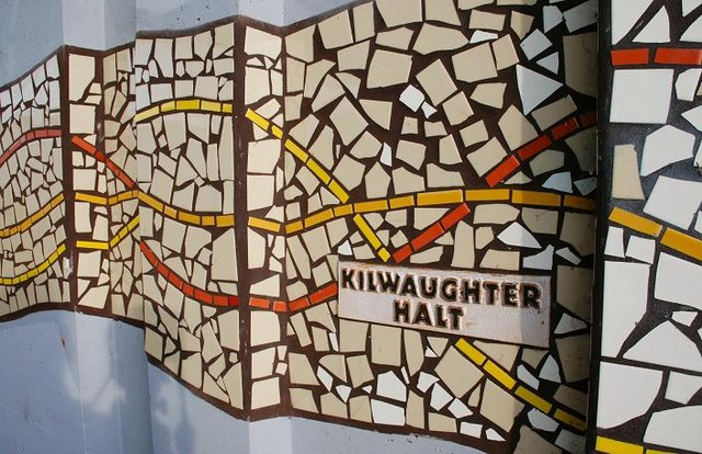 Mosaic, Larne This mosaic, under the Harbour Highway flyover, commemorates the Larne Harbour – Ballymena narrow-gauge railway (1877-1950). Kilwaughter was the next station after Larne. Part of the road is built on the course of the line.